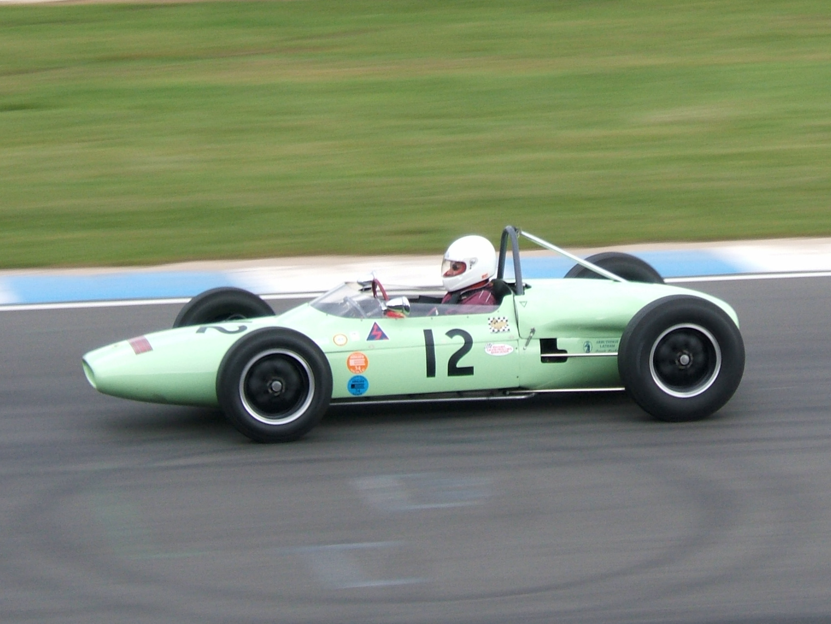 A Lotus 18/21 at speed on the Wheatcroft Straight, during the VSCC SeeRed race meeting, Donington Park, September 2007.